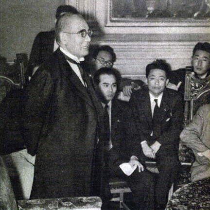 International Law expert Admiral Kichisaburō Nomura (1877–1964) meets the press after having been appointed as Foreign Minister.